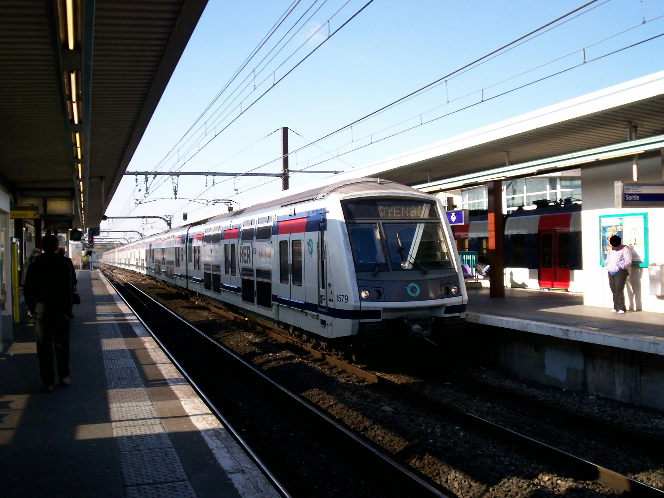 The service QYEN96 served by a MI 2N Alteo, going to Marne-la-Vallée – Chessy (parks Disneyland), at Torcy station.